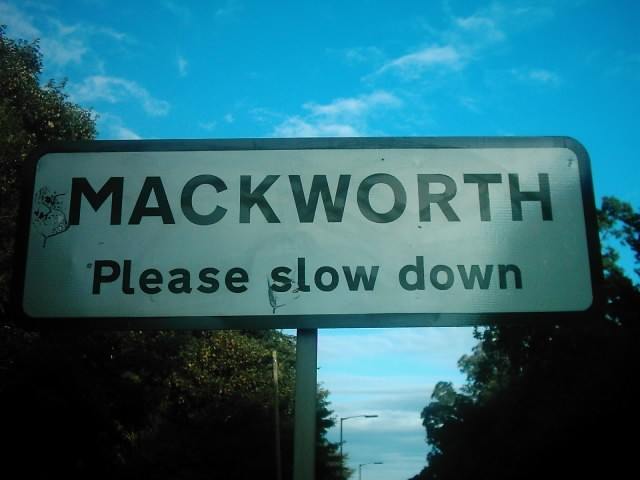 Mackworth signpost on Ashbourne Road (A52), Mackworth Estate, Derby. Photo Taken: 11/08/07